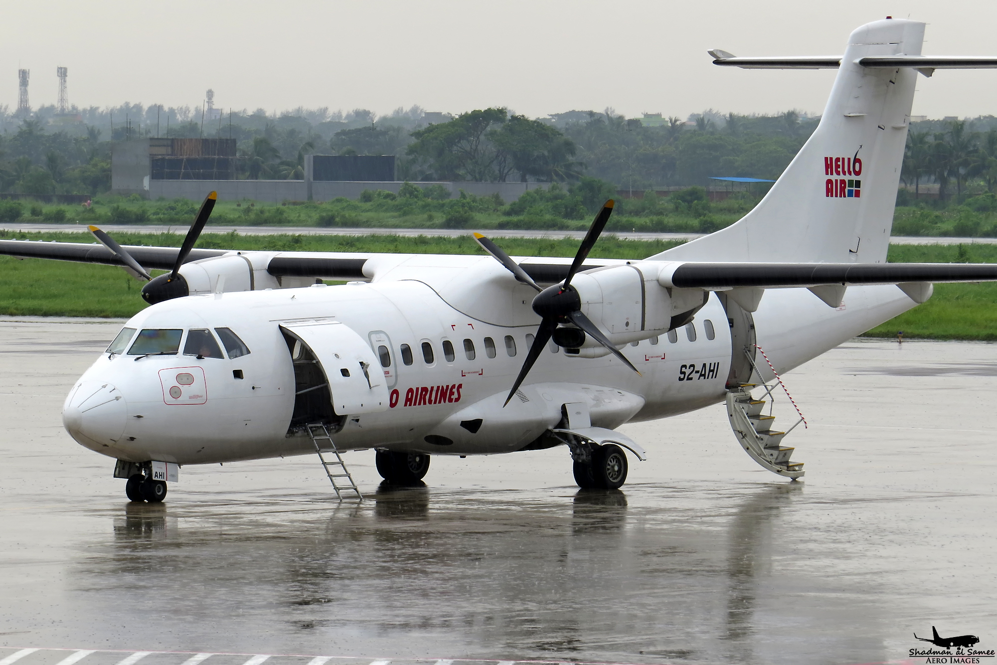 VGEG/CGP 2016: A close up of the only ATR-42 registered in the country; her C-check's pending as of 2017, or so I have heard.